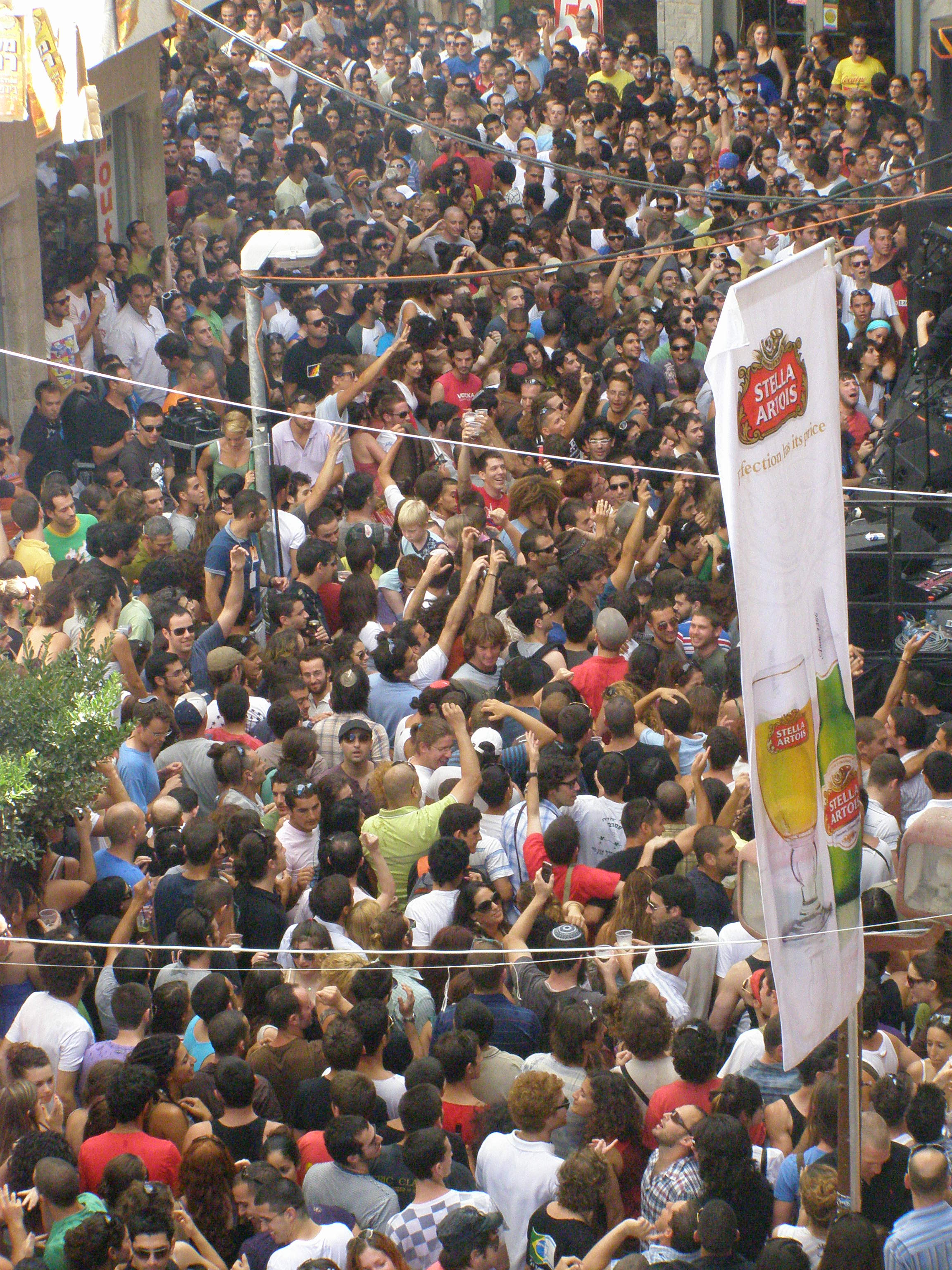 Jerusalem, street party in Dorot Rishonim street